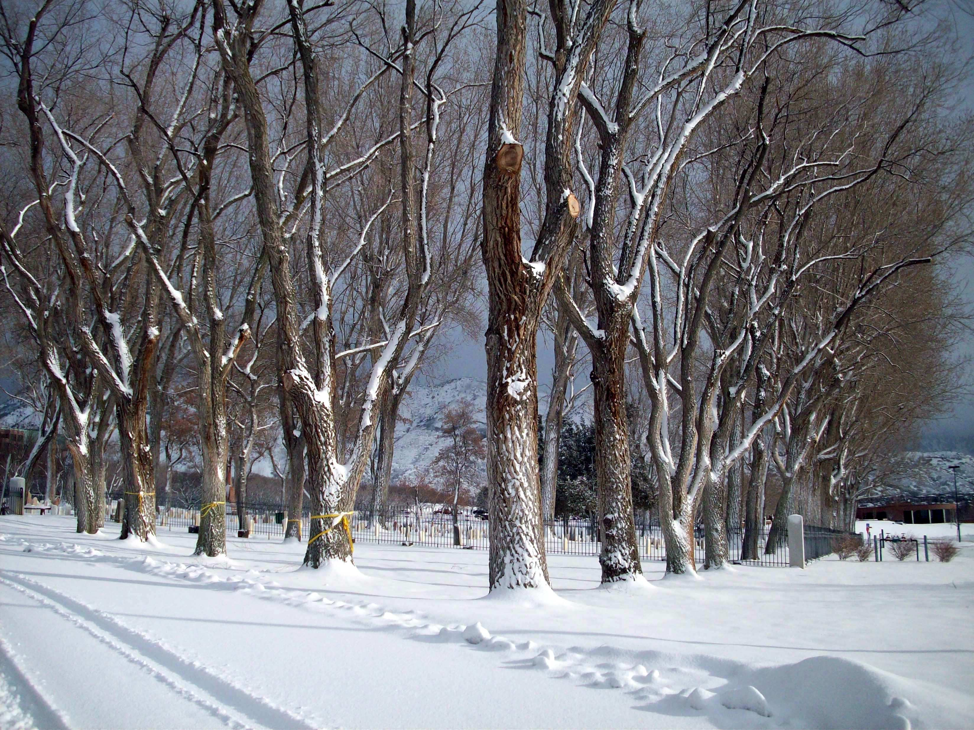 Fort Douglas Cemetery, January 2008.